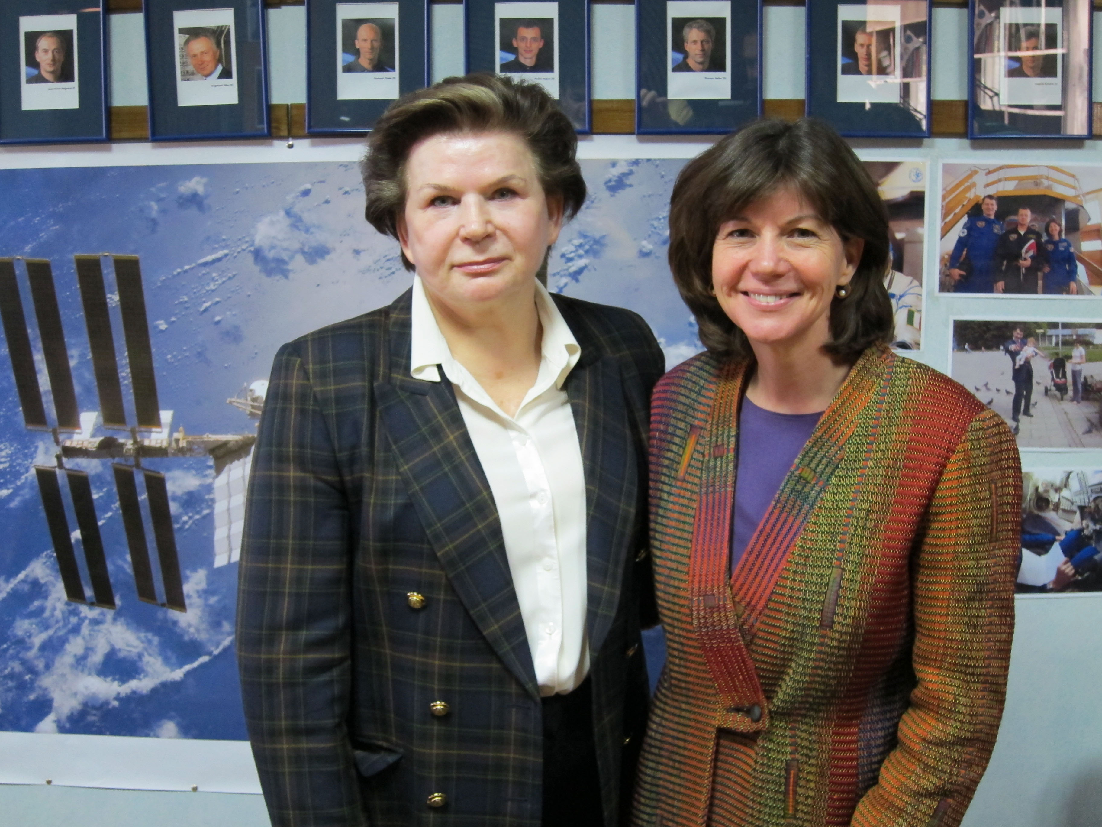 At the Gagarin Cosmonaut Training Center in Star City, Russia, Dec. 2, 2010, NASA astronaut Catherine (Cady) Coleman (right), Expedition 26 flight engineer, meets with Valentina Tereshkova, the first woman to fly in space, on the eve of Coleman's departure for the Baikonur Cosmodrome in Kazakhstan, where she and her crewmates, Russian cosmonaut Dmitry Kondratyev and Paolo Nespoli of the European Space Agency will launch Dec. 16, Kazakhstan time, on the Soyuz TMA-20 spacecraft to the International Space Station. Tereshkova, 73, became the first woman to fly in space on June 16, 1963 aboard the USSR's Vostok 6 spacecraft.